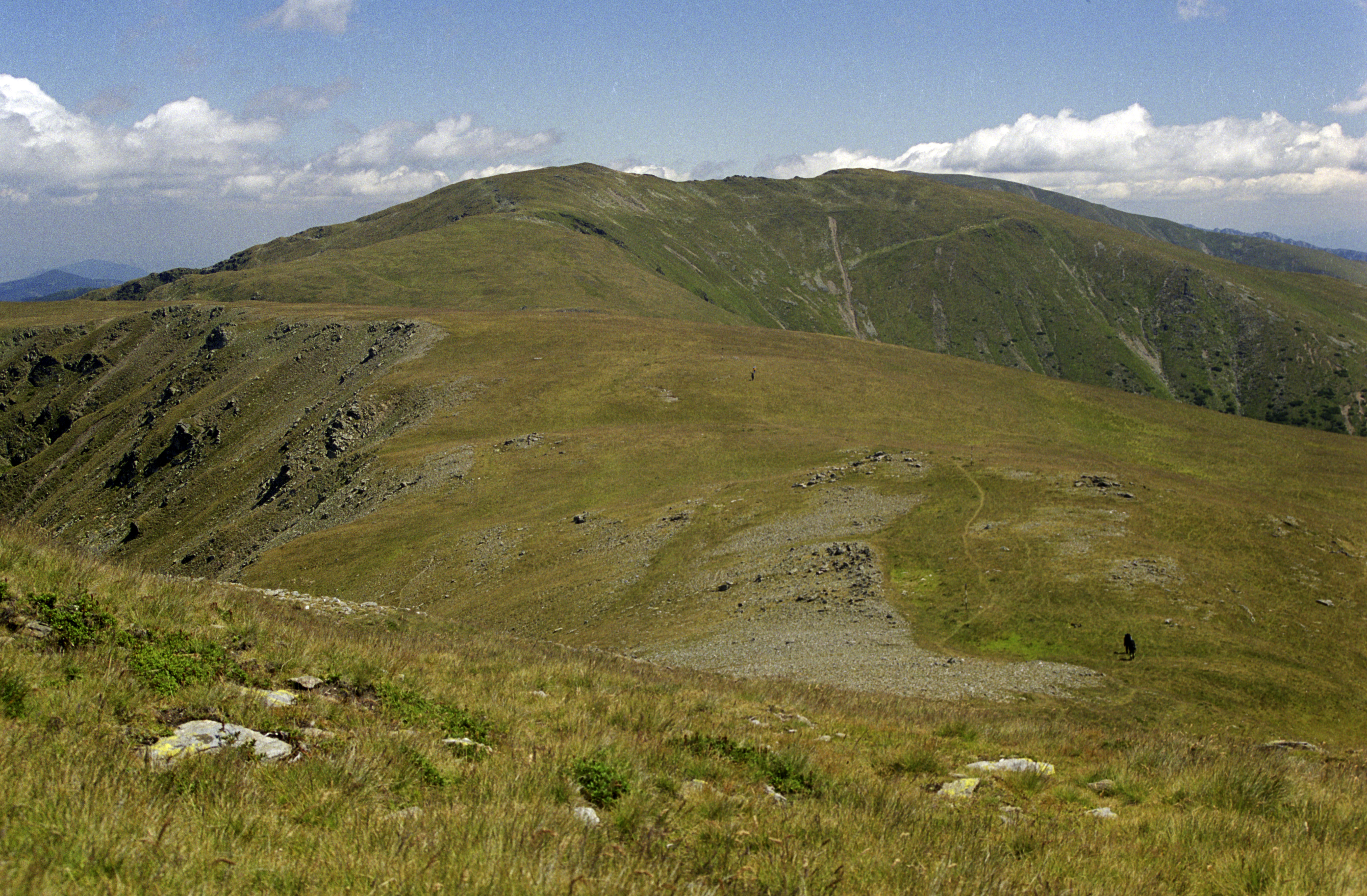 Iezer-Păpușa mountains, RomaniaRomână: Munții Iezer-Păpușa, România